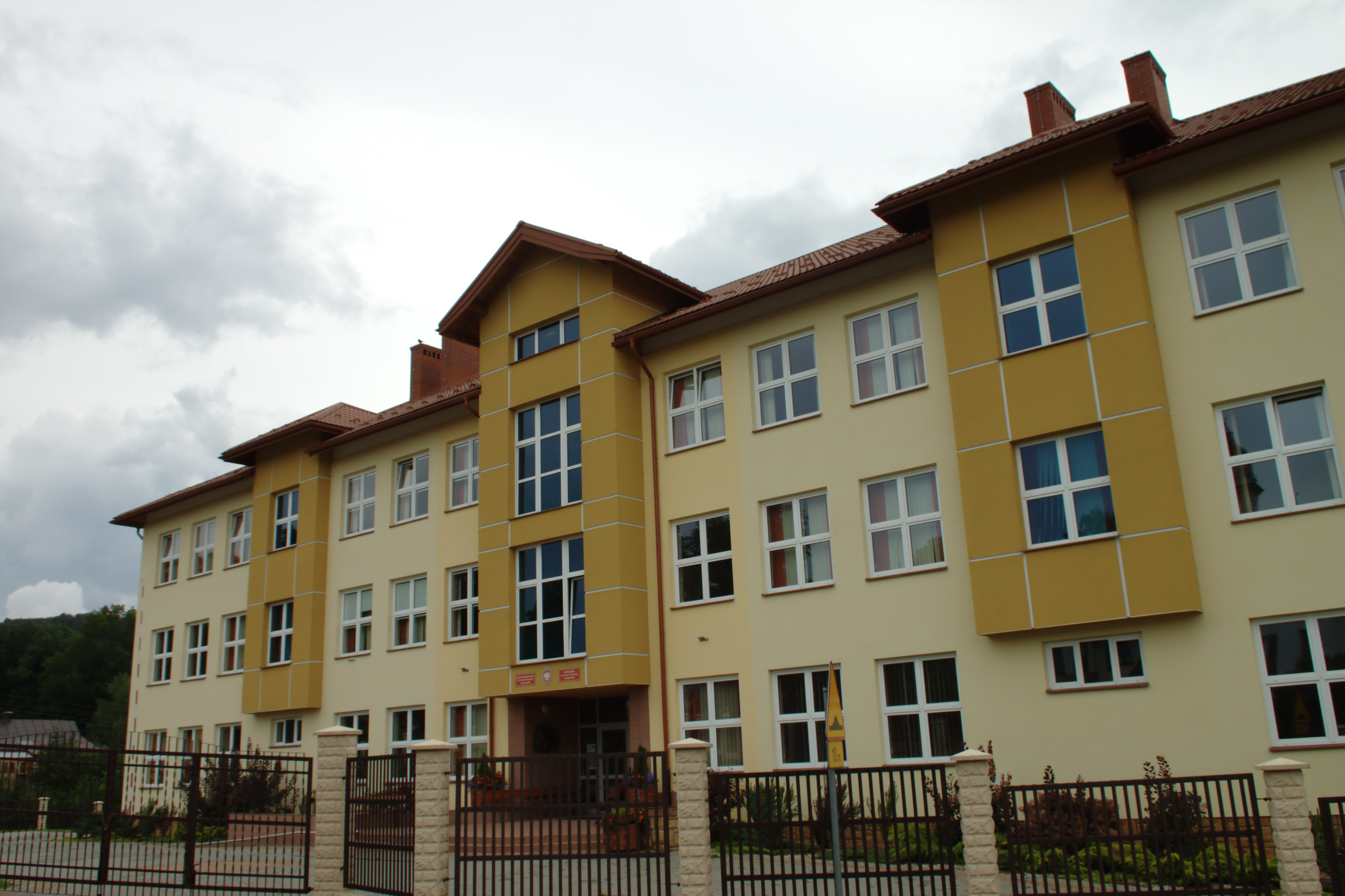 Front side of the grammar school in Rymanów, Podkarpackie voivodeship, Poland This photo of Subcarpathian Voivodeship was taken during Wikiekspedycja 2011 set up by Wikimedia Polska Association.You can see all photographs in category Wikiekspedycja 2011. The making of this document was supported by Wikimedia Polska.